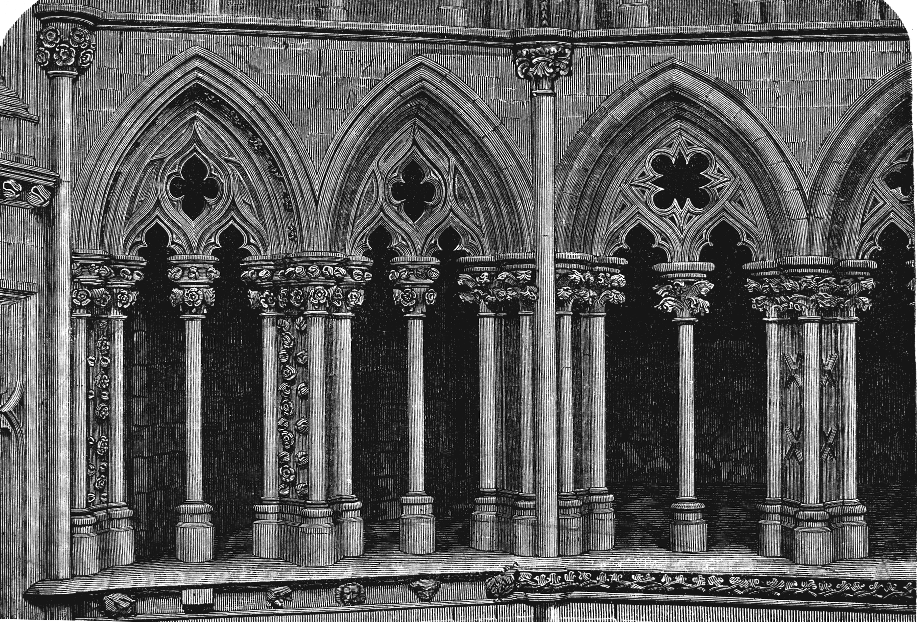 Triforium of Nidaros Cathedral, Trondhei, Norway. Xylograph by unknown artist, 1885.